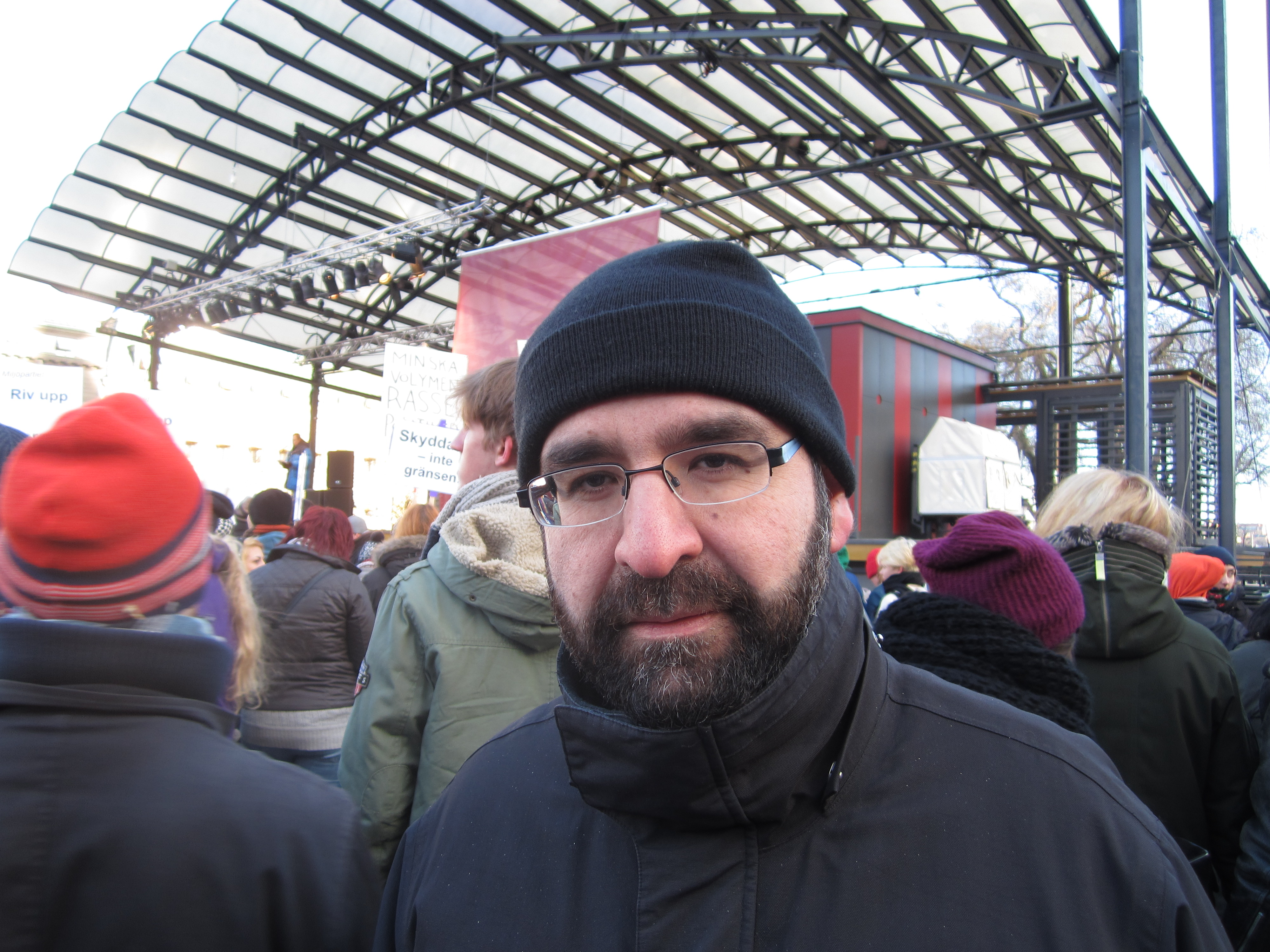 Mehmet Kaplan, member of the Swedish Parliament for the Green Party. Demonstration against REVA and Sweden's migration policy in Kungsträdgården in Stockholm, organized by Save the Children's youth association, the Red Cross' youth association and Ungdom Mot Rasism ("Youth Against Racism").